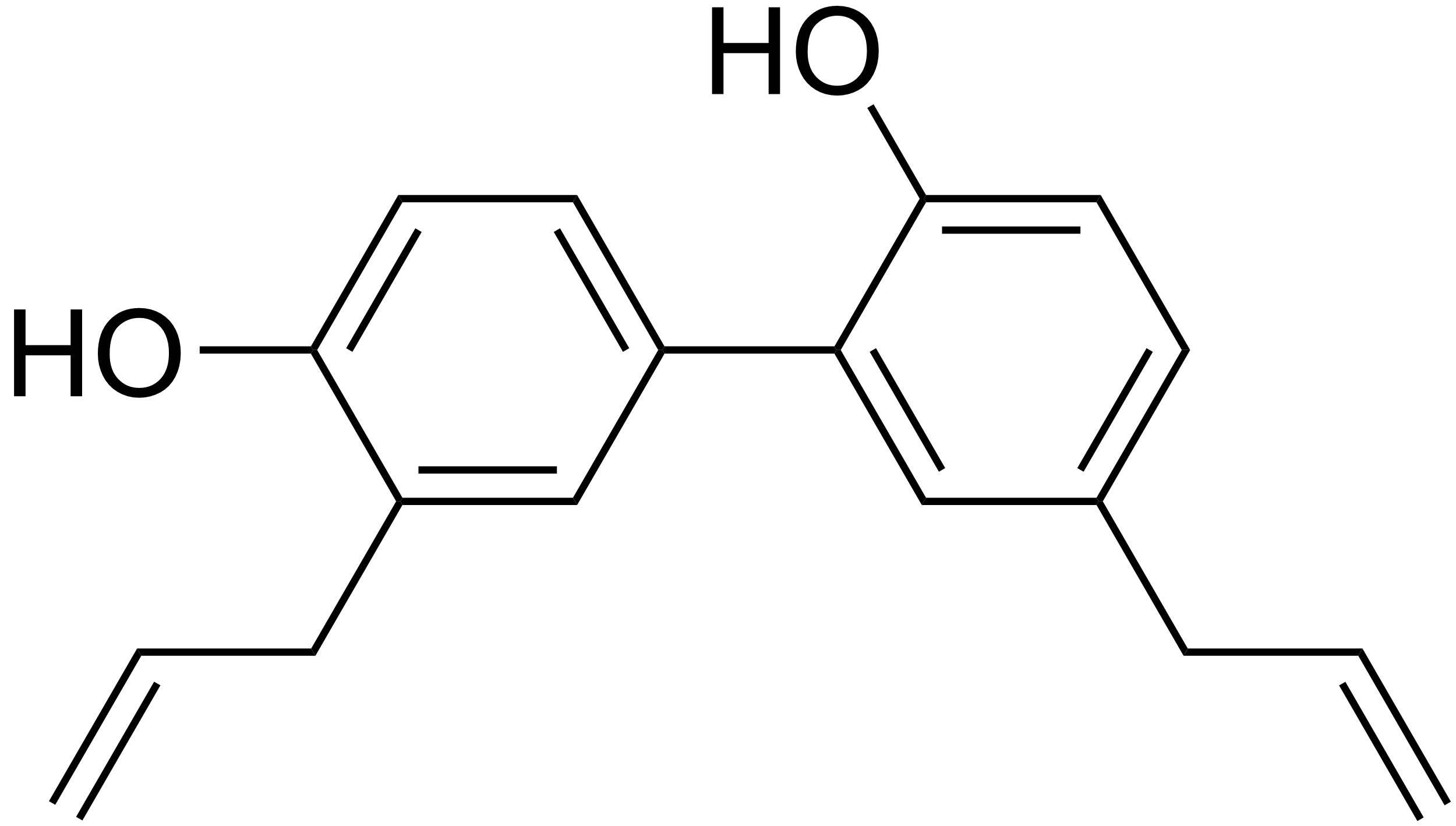 Chemical structure of honokiol